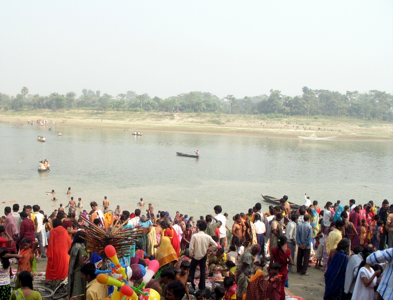 People talking bath in Budhi Gandak river on the ocasion of Buddha purnima in Muzaffarpur, Bihar, India.